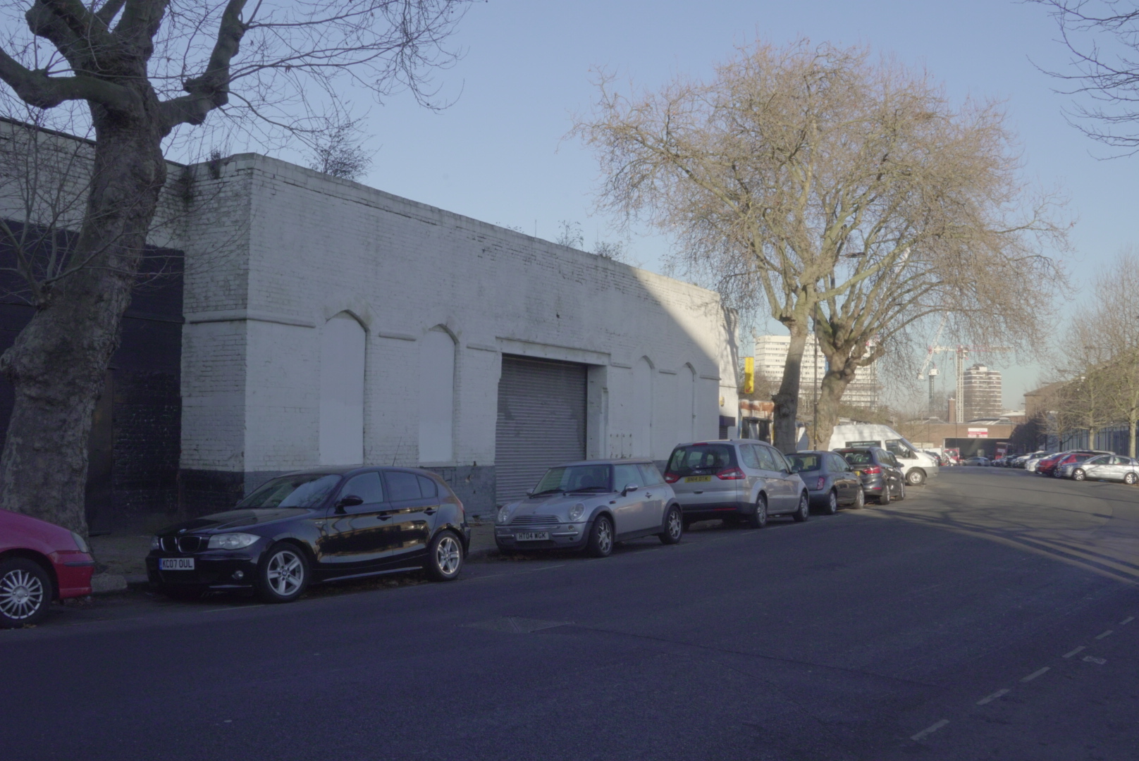 The frontage of the old Camberwell Station on Camberwell Station Road in 2016